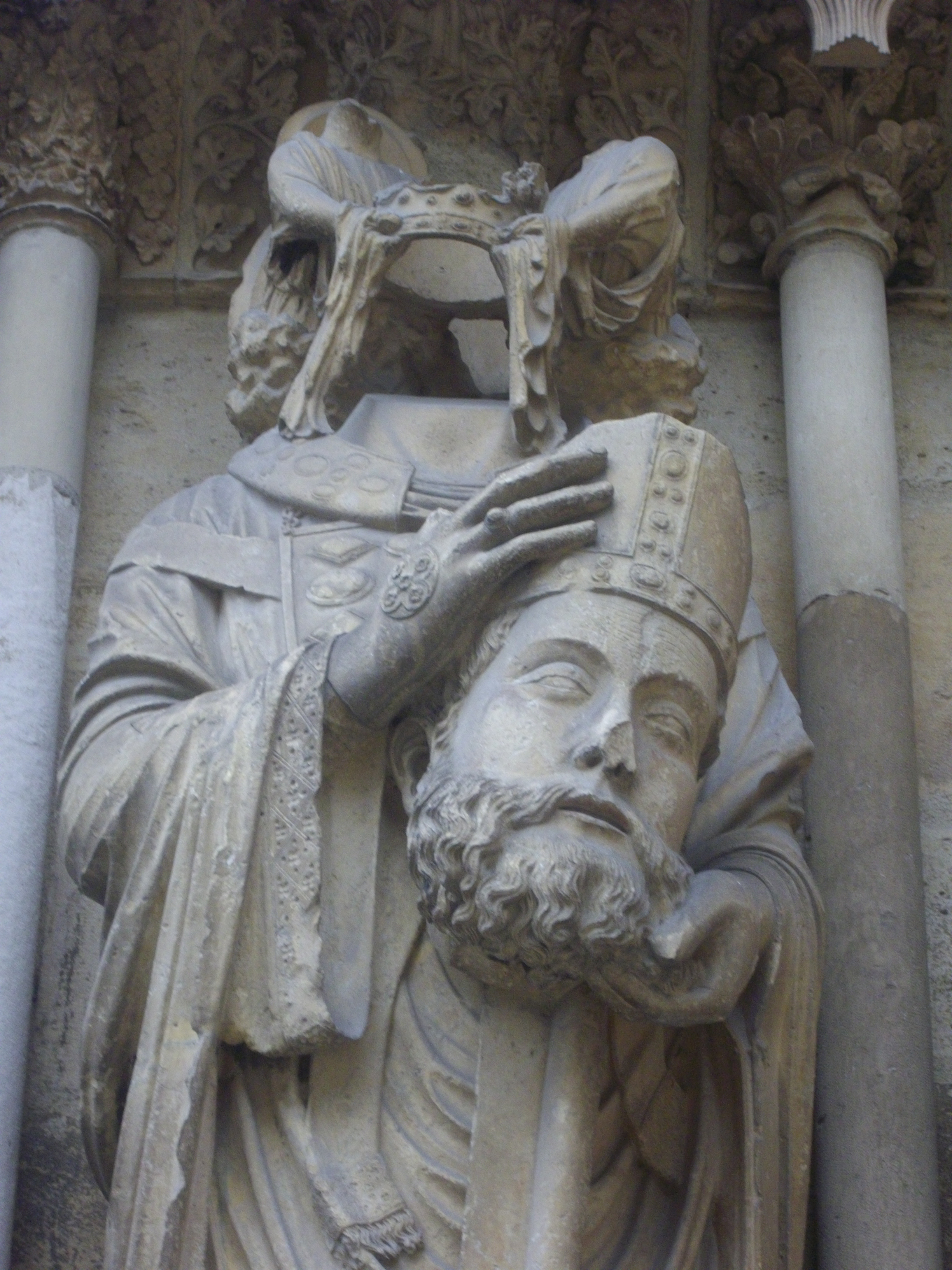 Our Lady cathedral of Reims (Marne, France). Portal of the Saints on the northern transept. Statue of Saint Nicasius .